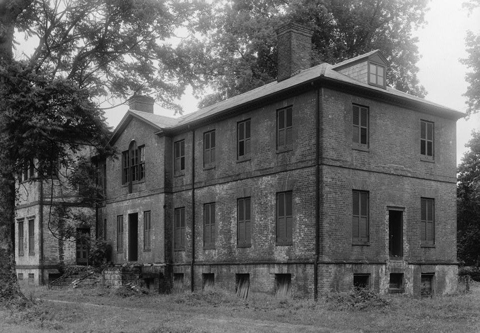 Elmwood, State Route 640 vicinity, Loretto vicinity (Essex County, Virginia) cropped This file comes from the Historic American Buildings Survey (HABS), Historic American Engineering Record (HAER) or Historic American Landscapes Survey (HALS). These are programs of the National Park Service established for the purpose of documenting historic places. Records consist of measured drawings, archival photographs, and written reports. When reusing please credit: Library of Congress, Prints & Photographs Division, VA,29-LOR.V,2-1 This tag does not indicate the copyright status of the attached work. A normal copyright tag is still required. See Commons:Licensing for more information. This work is in the public domain in the United States because it is a work prepared by an officer or employee of the United States Government as part of that person’s official duties under the terms of Title 17, Chapter 1, Section 105 of the US Code. See Copyright. Note: This only applies to original works of the Federal Government and not to the work of any individual U.S. state, territory, commonwealth, county, municipality, or any other subdivision. This template also does not apply to postage stamp designs published by the United States Postal Service since 1978. (See § 313.6(C)(1) of Compendium of U.S. Copyright Office Practices). It also does not apply to certain US coins; see The US Mint Terms of Use. This file has been identified as being free of known restrictions under copyright law, including all related and neighboring rights.